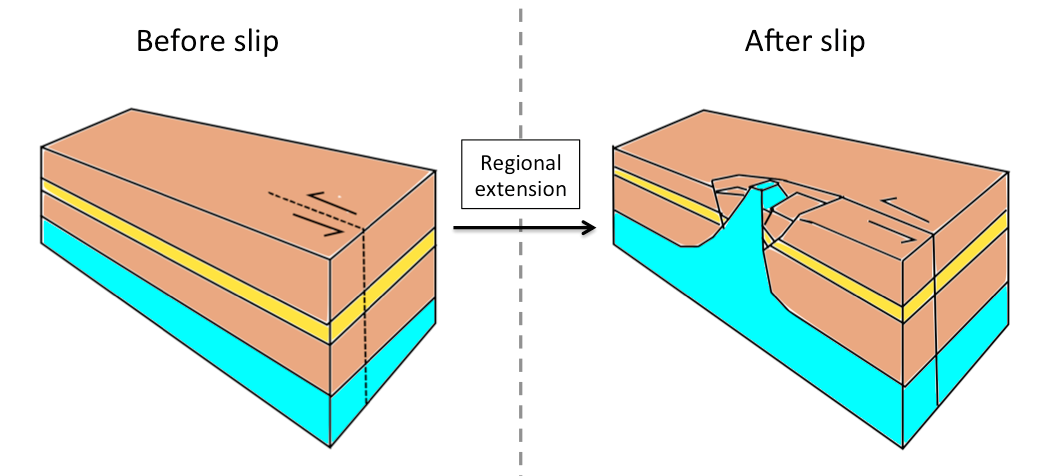 before and after slip (4)